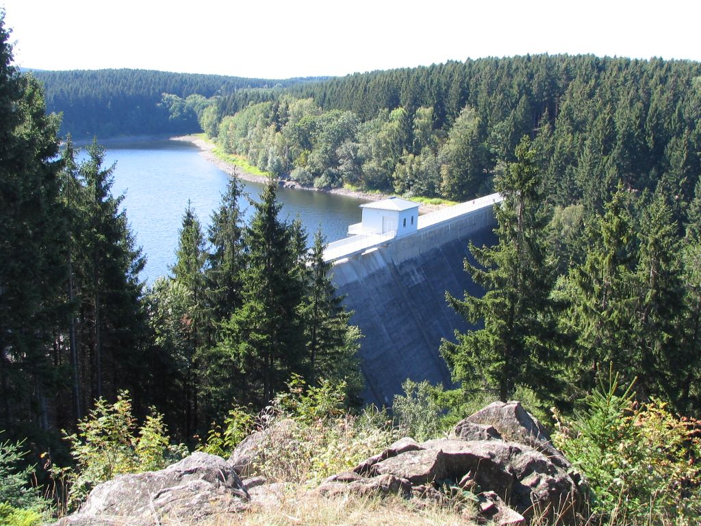 The Zillierbach Dam in the Harz mountains of Germany, seen from Peterstein